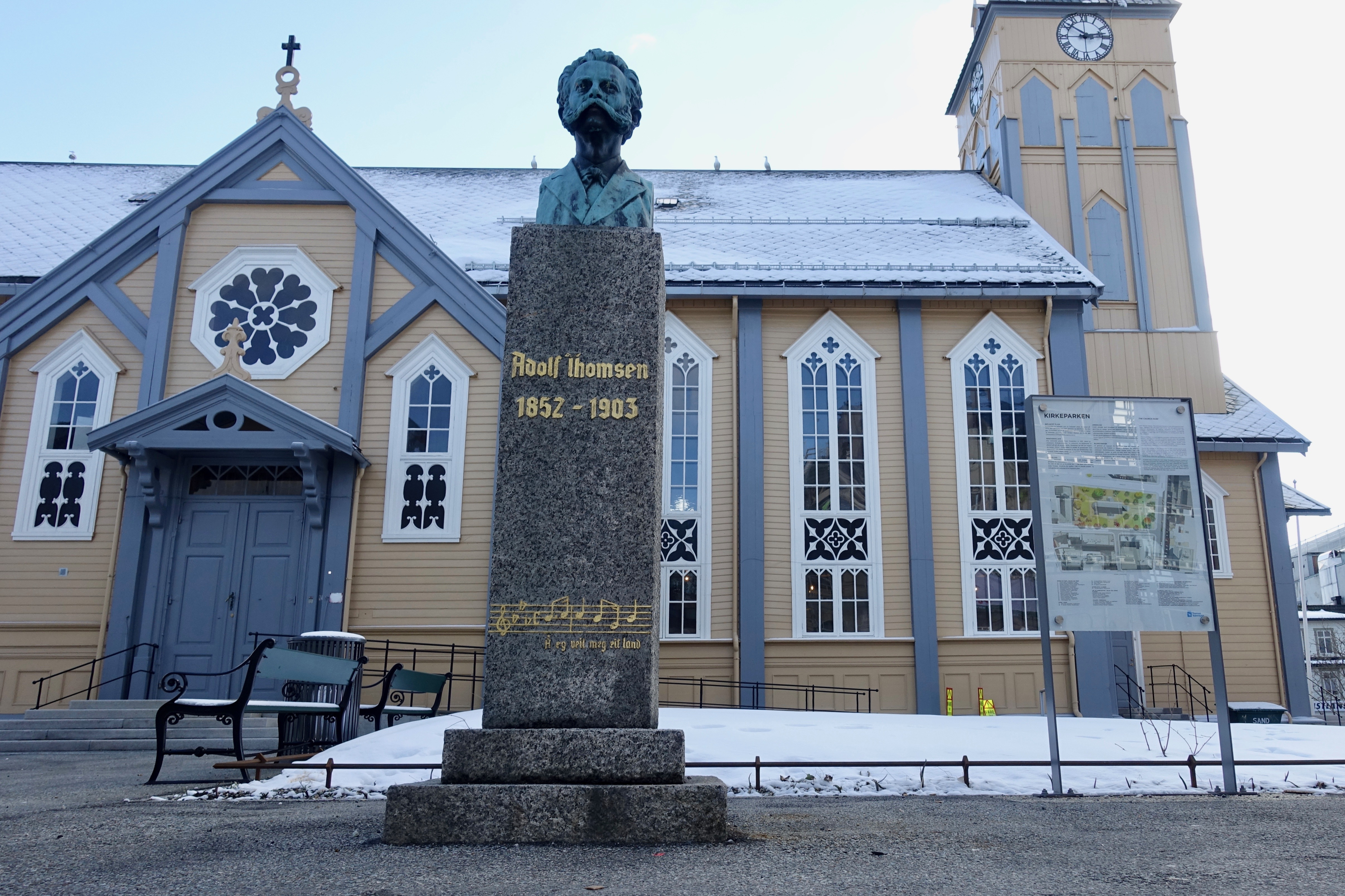 Monument and information board in the Church park (Kirkeparken) outside Tromsø Cathedral (in Norwegian Tromsø domkirke) in central Tromsø, Norway. Bust of composer Adolf Thomsen by sculptor Trygve thorsen 1943, unveiled 1946. Text on pillar: "Adolf Thomsen 1852–1903" and "Å eg veit meg eit land" (first line and notes of Elias Blix' popular hymn "Barndomsminne frå Nordland"). North wall and side entrance of "Tromsø domkirke", a wooden Lutheran cathedral built in 1861 and designed by architect architect Christian Heinrich Grosch in a long church format and the Gothic Revival style. Photo taken on 4th April 2019.